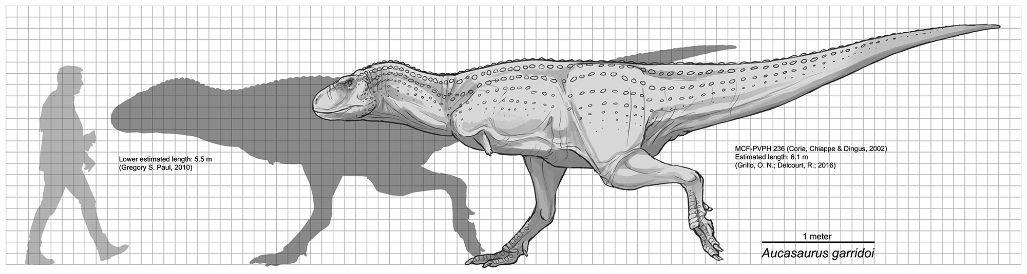 Scale diagram of Aucasaurus garridoi.